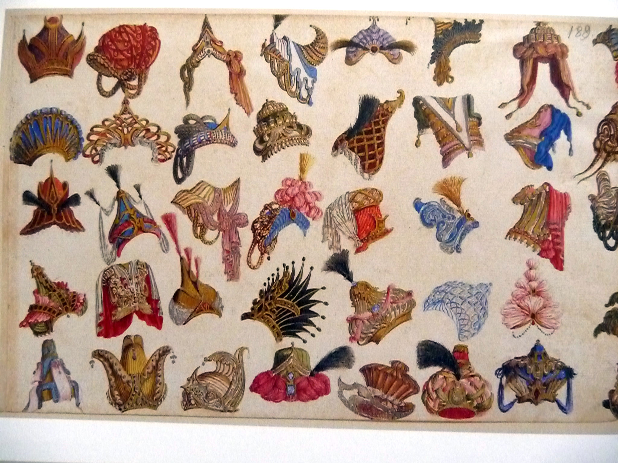 Das "Modekupfer" aus der Zeit des ausgehenden 17. Jahrhunderts zeigt unterschiedliche Kopfbedeckungen als Attribut zu Bühnenkostümen für Damen.